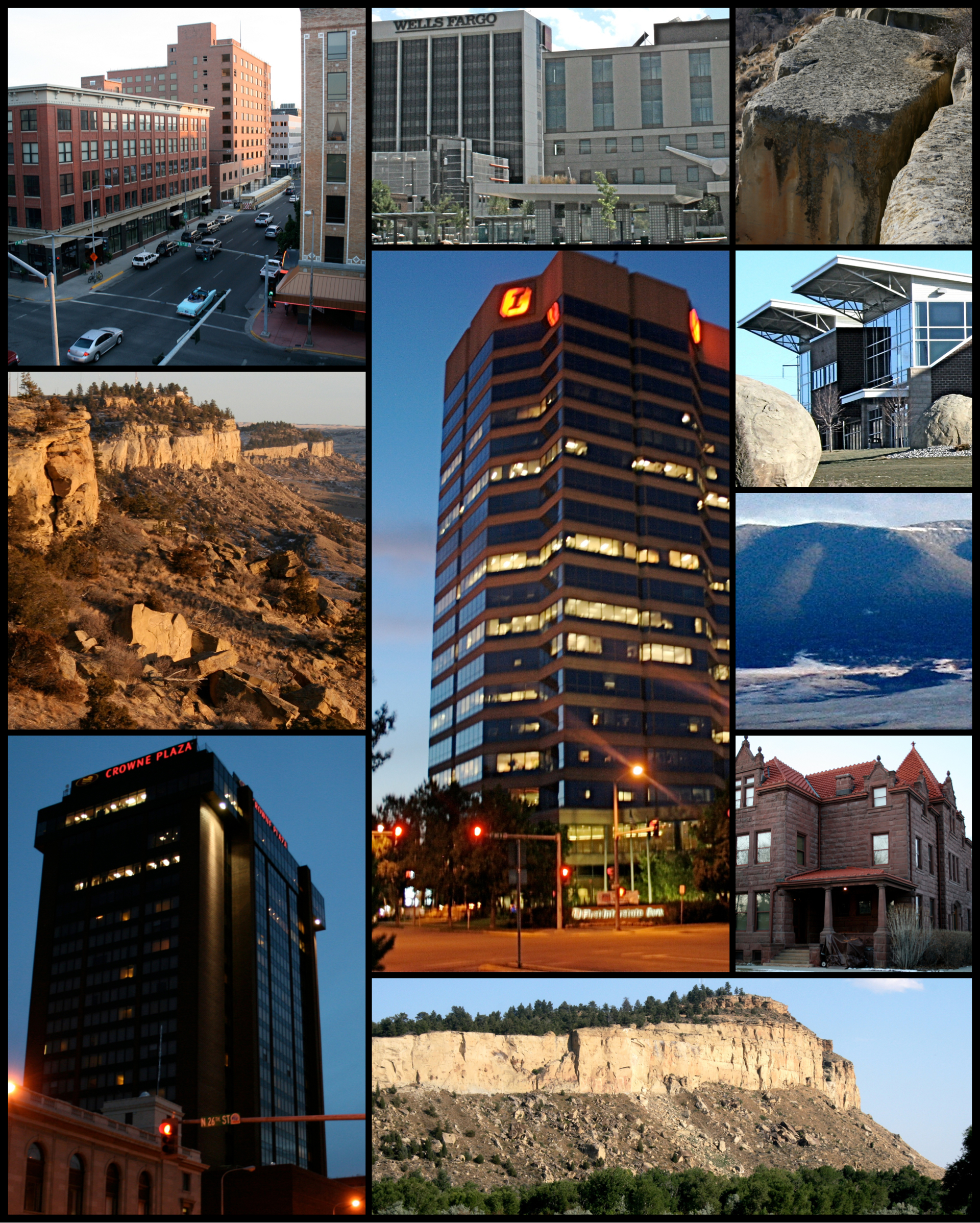 Billings, Montana Collage #4